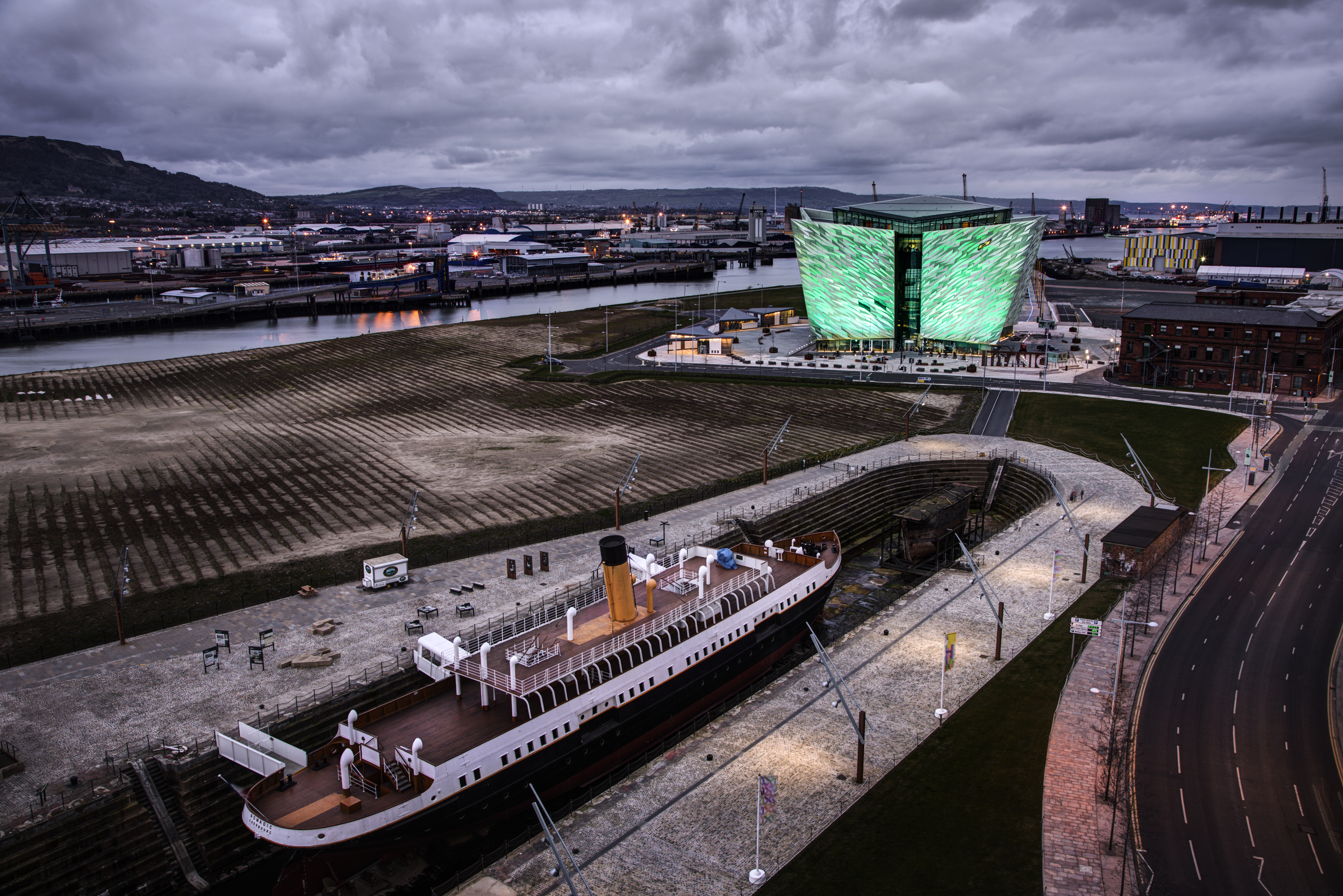 Titanic Belfast goes green for St Patricks Day